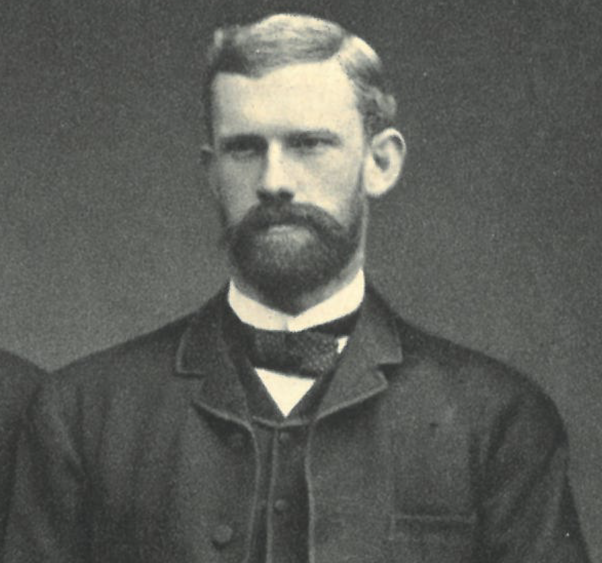 Ewald Auguste Esselen at the London Convention in 1883/1884.